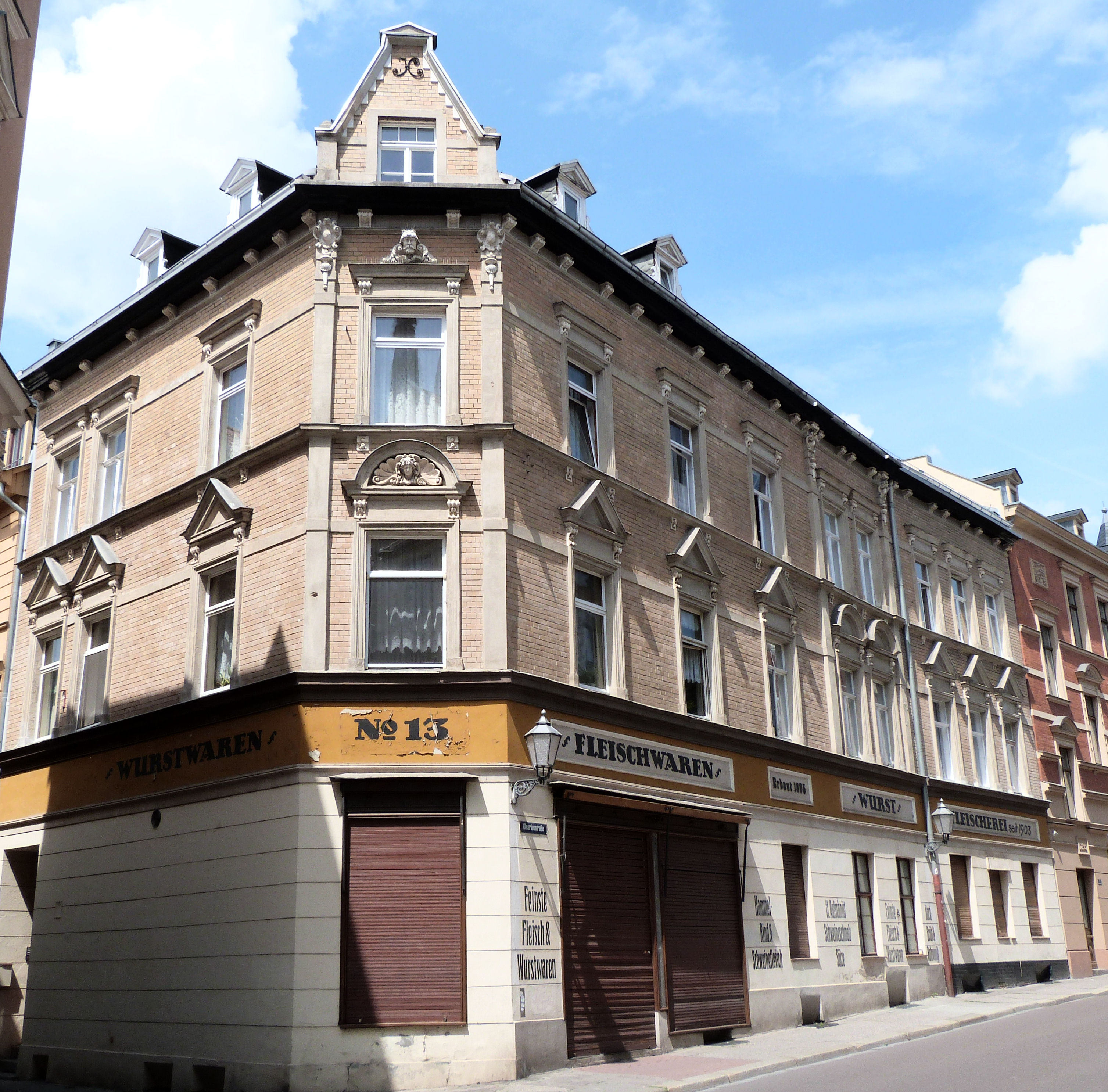 House No. 13 Oleariusstrasse in Halle (Saale)